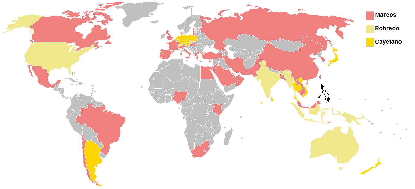 Overseas Breakdown of VP Race 2016